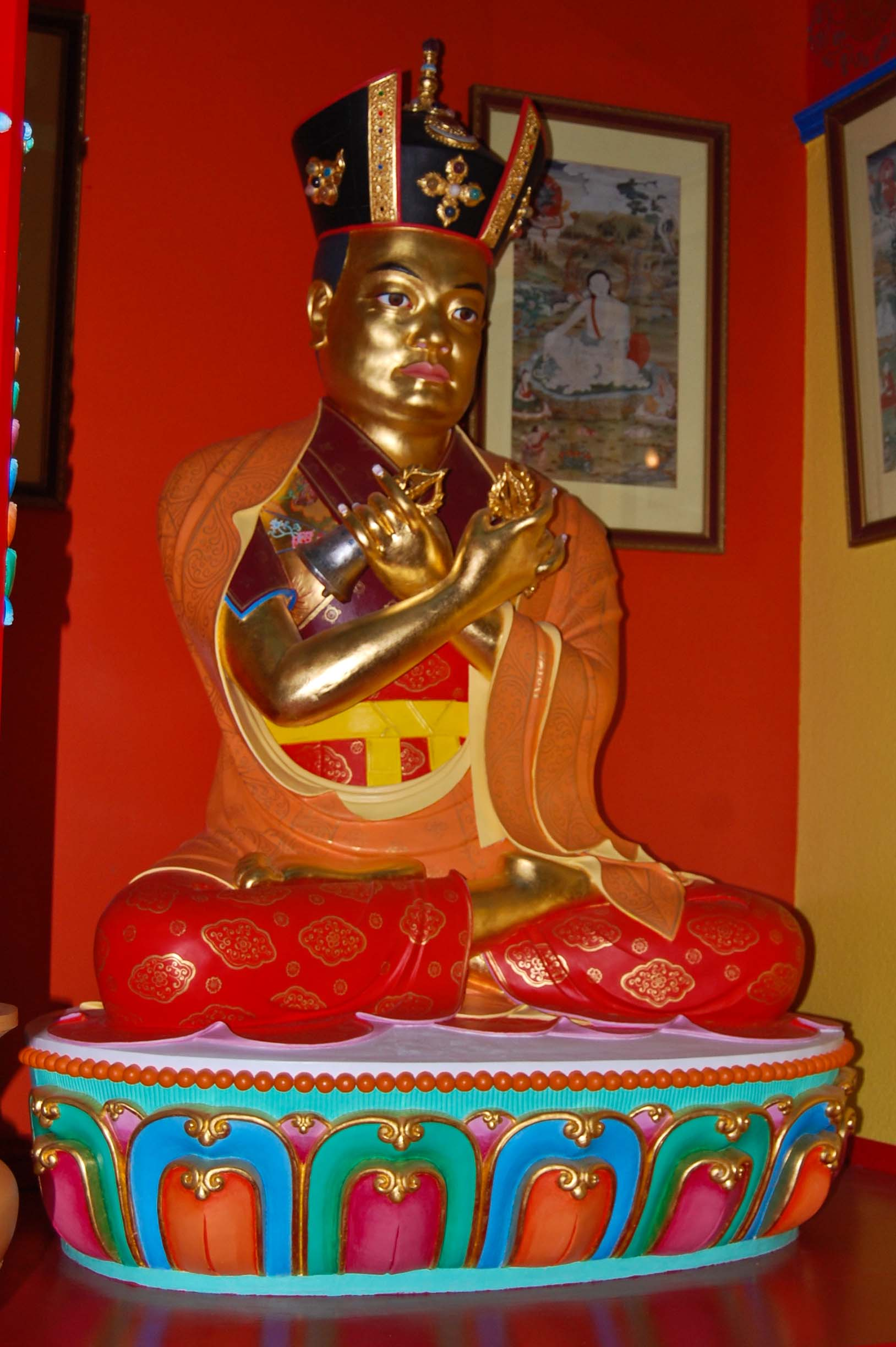 Statue of the 16 Karmapa at Samye Ling, Scotland.